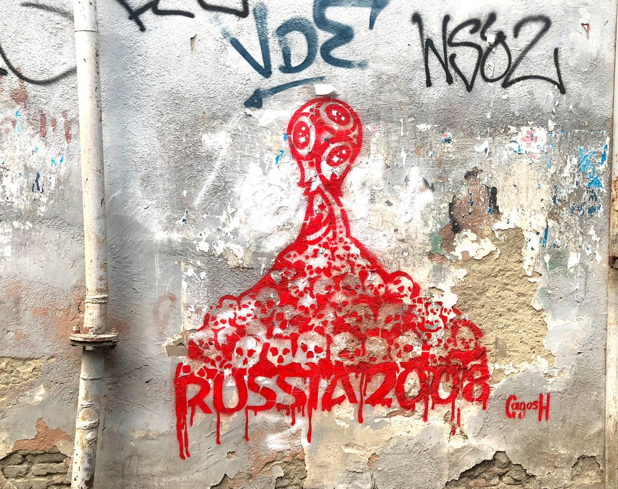 This stencil emerged in Tbilisi Old Town during the 2018 World Cup in Russia, anti-occupation stencil is signed by Gagosh .